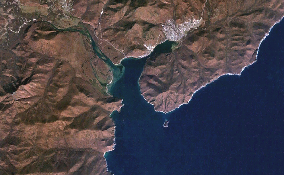 Olga Bay from Space